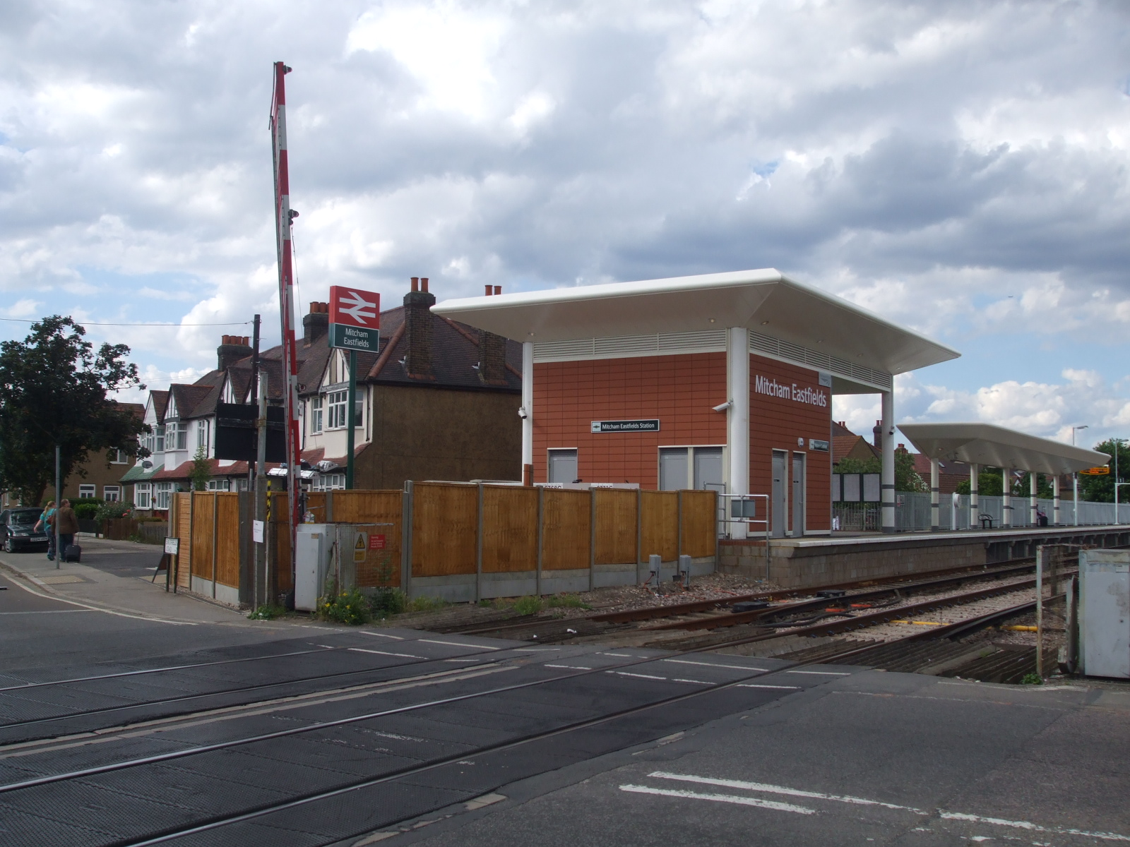 Mitcham Eastfields station building, on the northbound side, the platforms being staggered about the level crossing on Eastfields Road. That station opened just 13 days before this picture was taken.